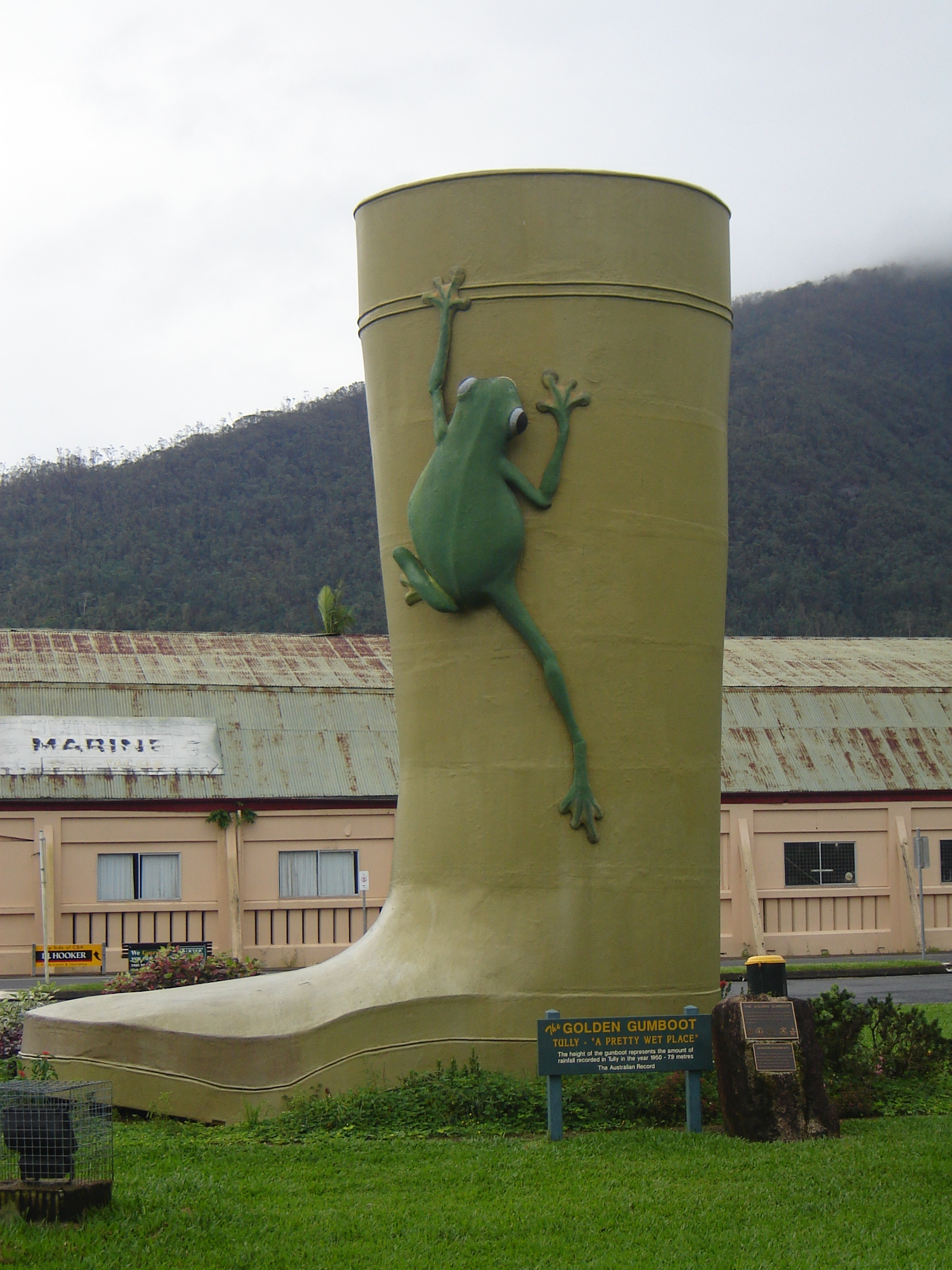 The Golden Gumboot at Tully. The Golden Gumboot stands just outside of the town's main street. It can be climbed. Photo taken by Frances76.